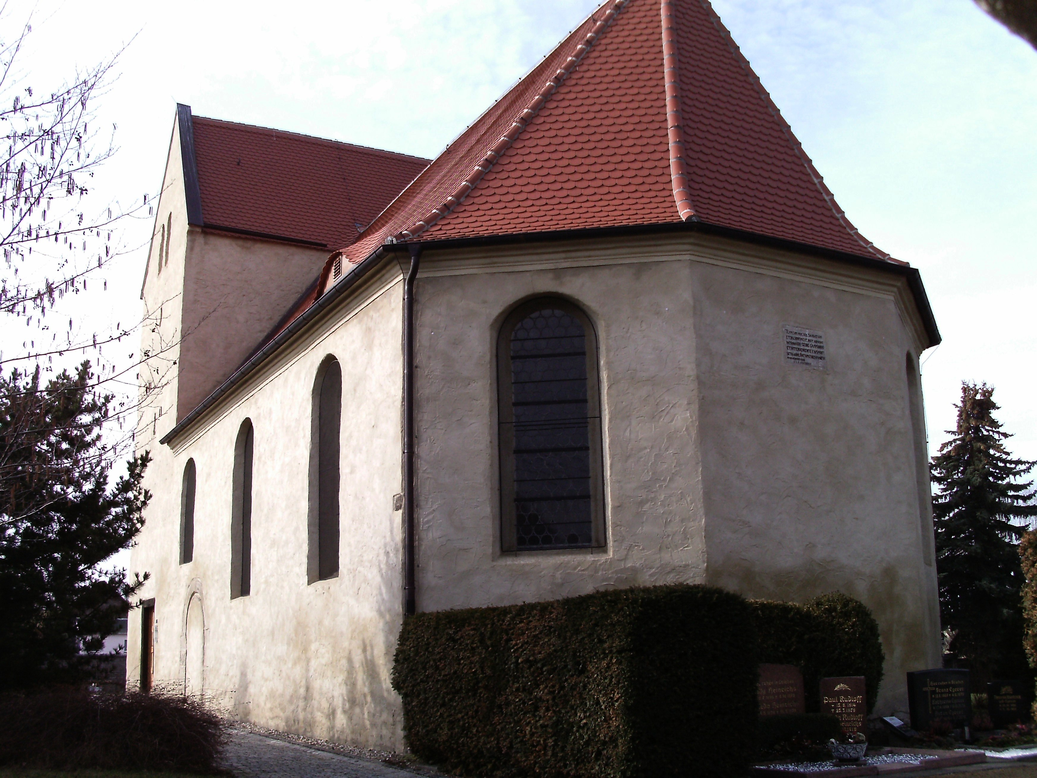 Oetzsch Church in Nempitz (Bad Dürrenberg, district of Saalekreis, Saxony-Anhalt) from the east